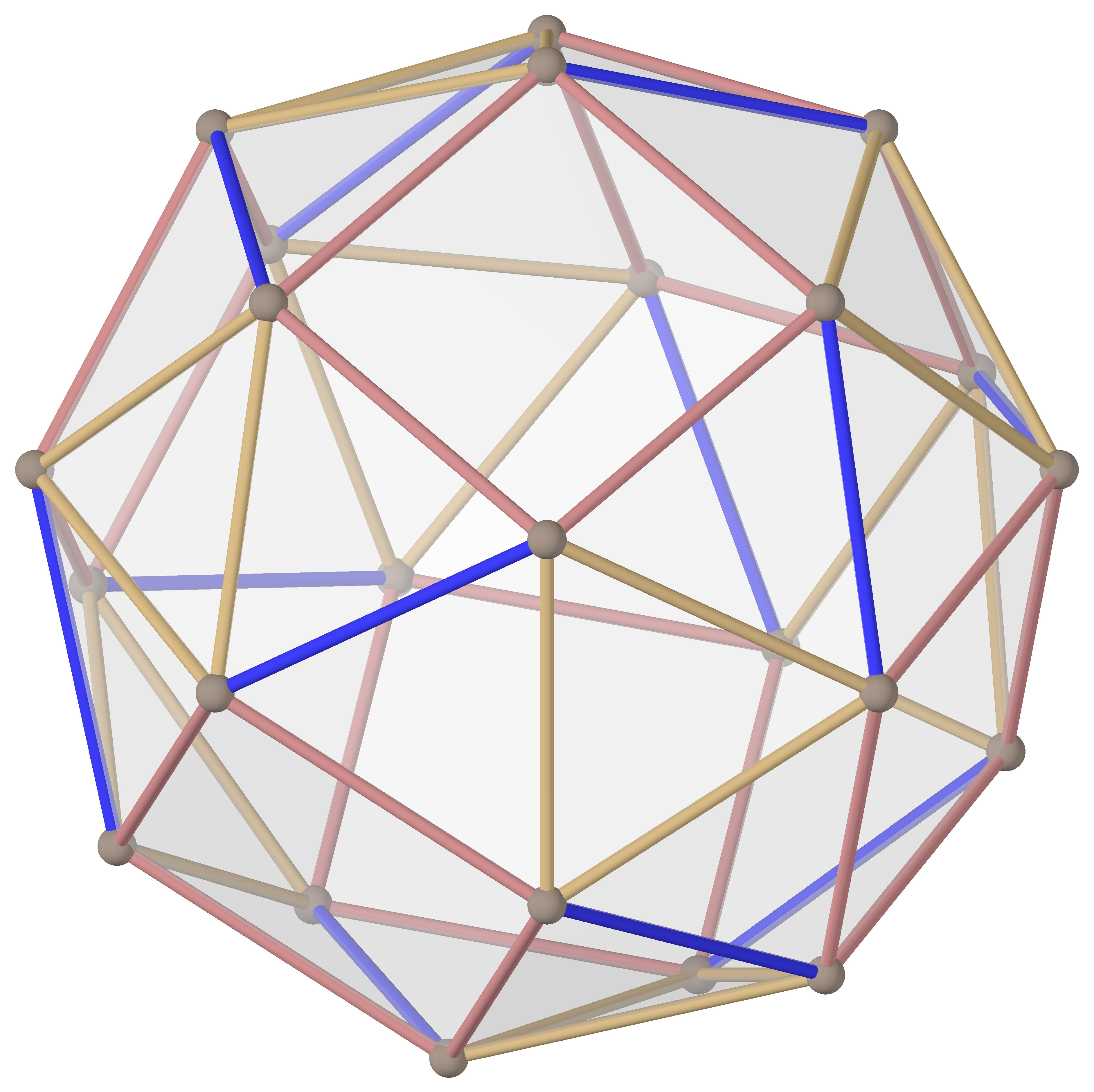 similar view of the snub dodecahedron snub cube (left) from vertex Image set Platonic, Archimedean and Catalan solids with direction colors Part of Polyhedra with direction colors (image set) This polyhedron has a form of octahedral symmetry. There are 12 blue elements. This set contains renderings of Platonic, Archimedean and Catalan solids. For most of them the sphere shown on the right is the polyhedrons midsphere. The geometric properties of these images have been calculated with Python, and they have been rendered with POV-Ray. The source code used can be found on GitHub. The POV-Ray sources are in this folder. This image was created with POV-Ray. This PNG graphic was created with Python. The images in this set have consistent sizes and angles. Please do not overwrite them. If this image has a margin, there is probably a variant without it — or it can be uploaded. (Filename with " max" at the end.)